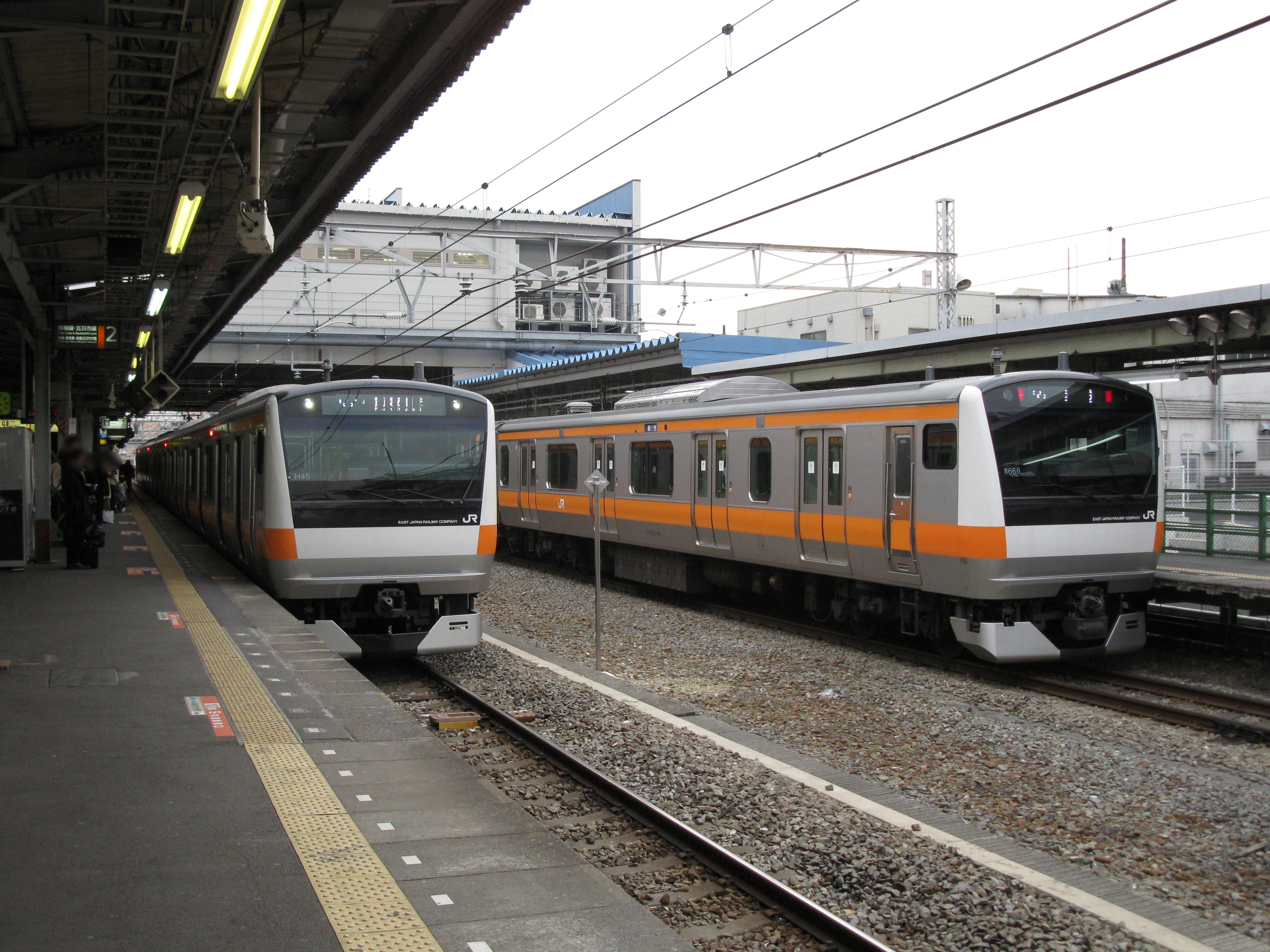 E233 series train stopping at Haijima Station no.1 and no.2 platform